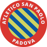 Logo of Atletico San Paolo Padova (a football club from Padua).